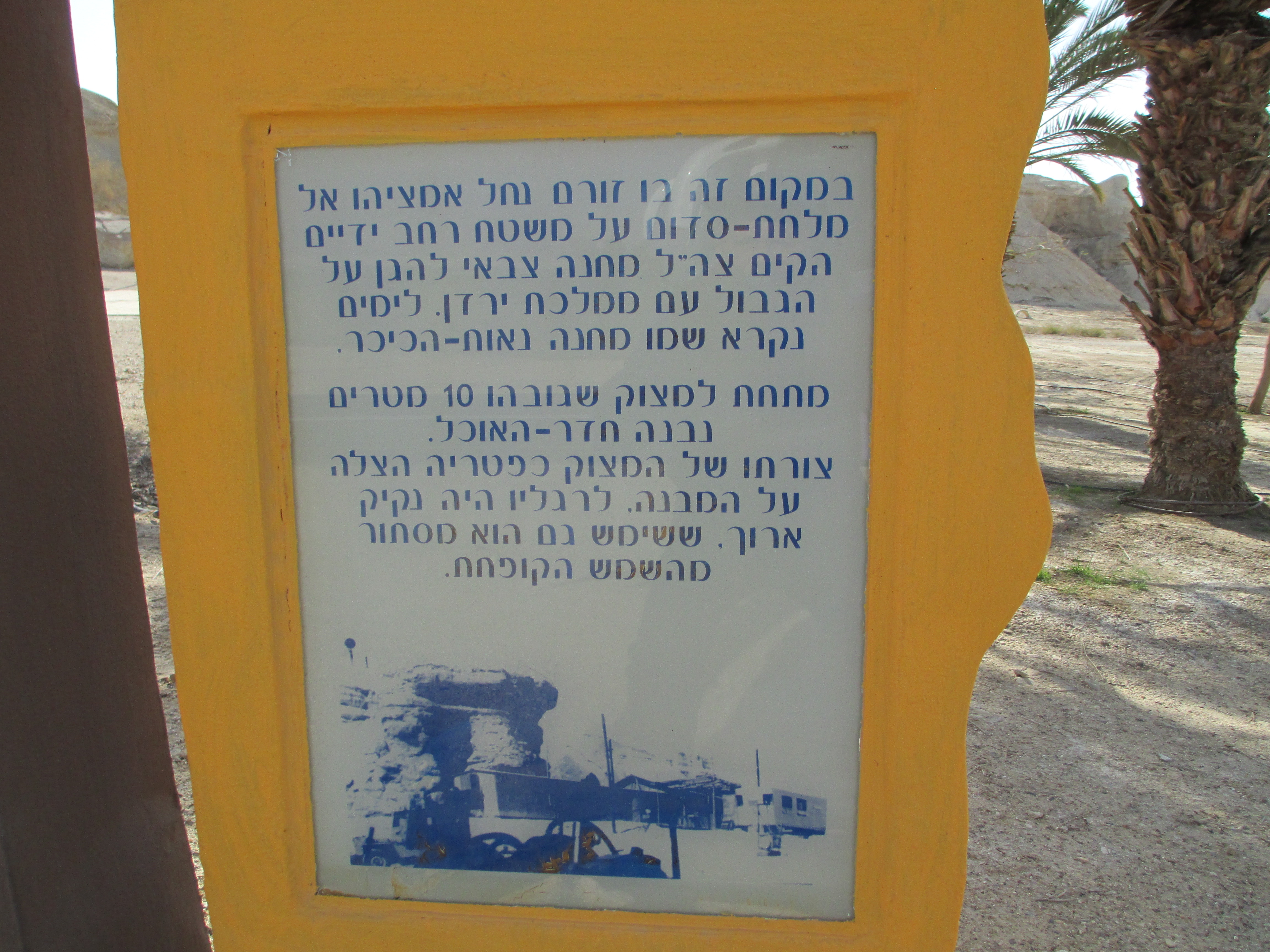 neot hakikar memorial, israel תמונת הצריף באתר הזיכרון לנספים בנאות הכיכר ב-1970